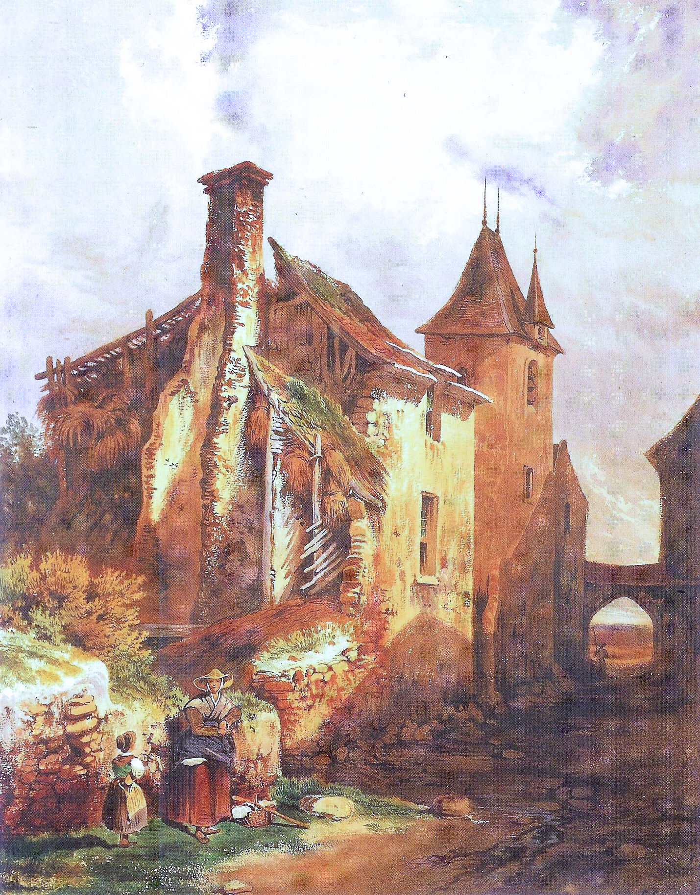 Luxembourgish: Ferme